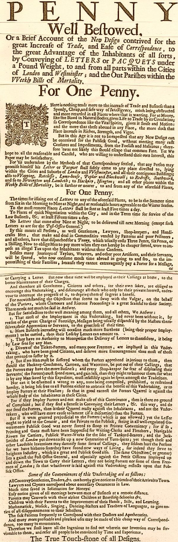 London Penny Post newspaper ad, defining postal services in London.